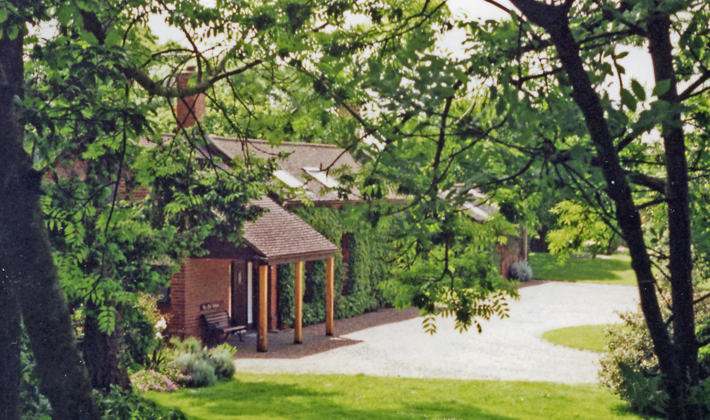 East Budleigh: former station, 1996. View southward, towards Budleigh Salterton and Exmouth: ex-LSWR Sidmouth Junction - Budleigh Salterton - Exmouth branch, closed 6/3/67. A new owner of the station has made a pleasant conversion with garden.